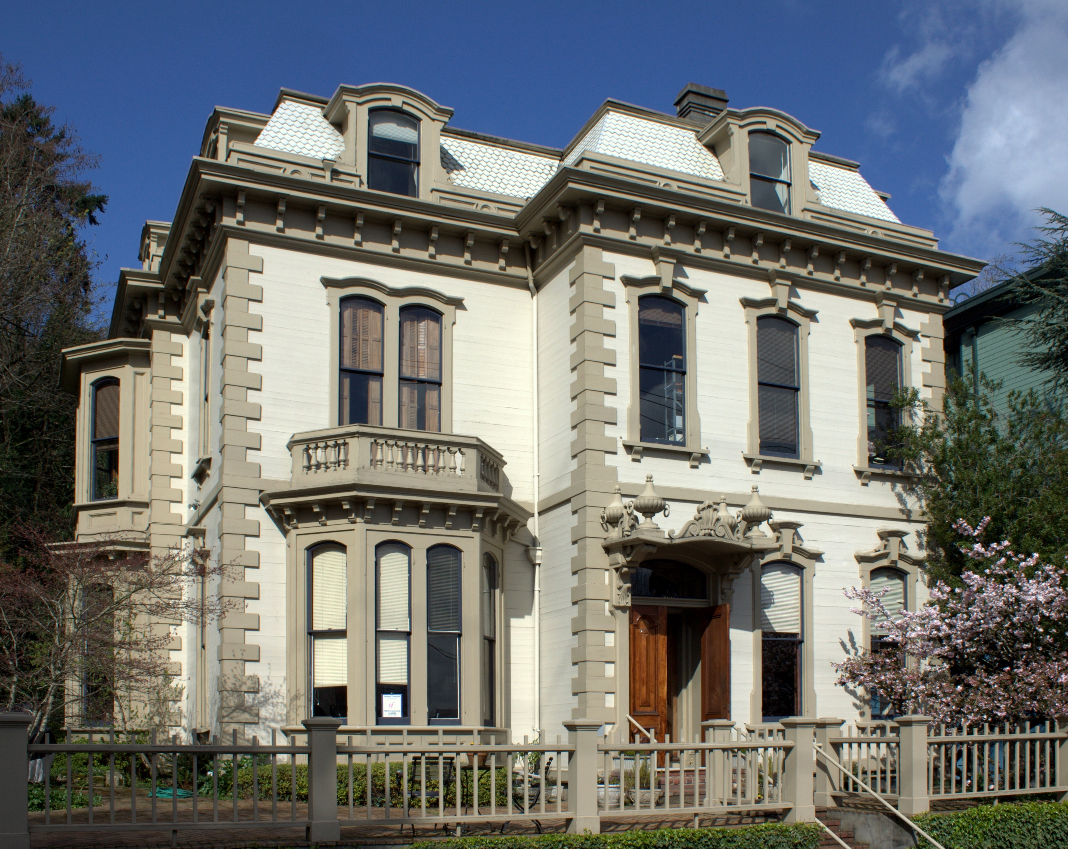 Jacob Kamm house, 2010-03-17. Jacob Kamm house from front, 2010-03-17.